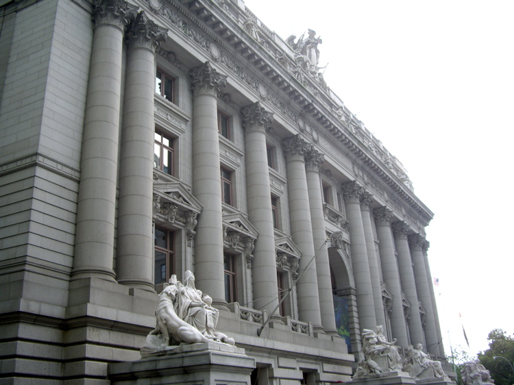 Facade of the Alexander Hamilton U.S. Custom House — 1 Bowling Green, lower Manhattan, NYC. Entrance facade of the National Museum of the American Indian, New York.